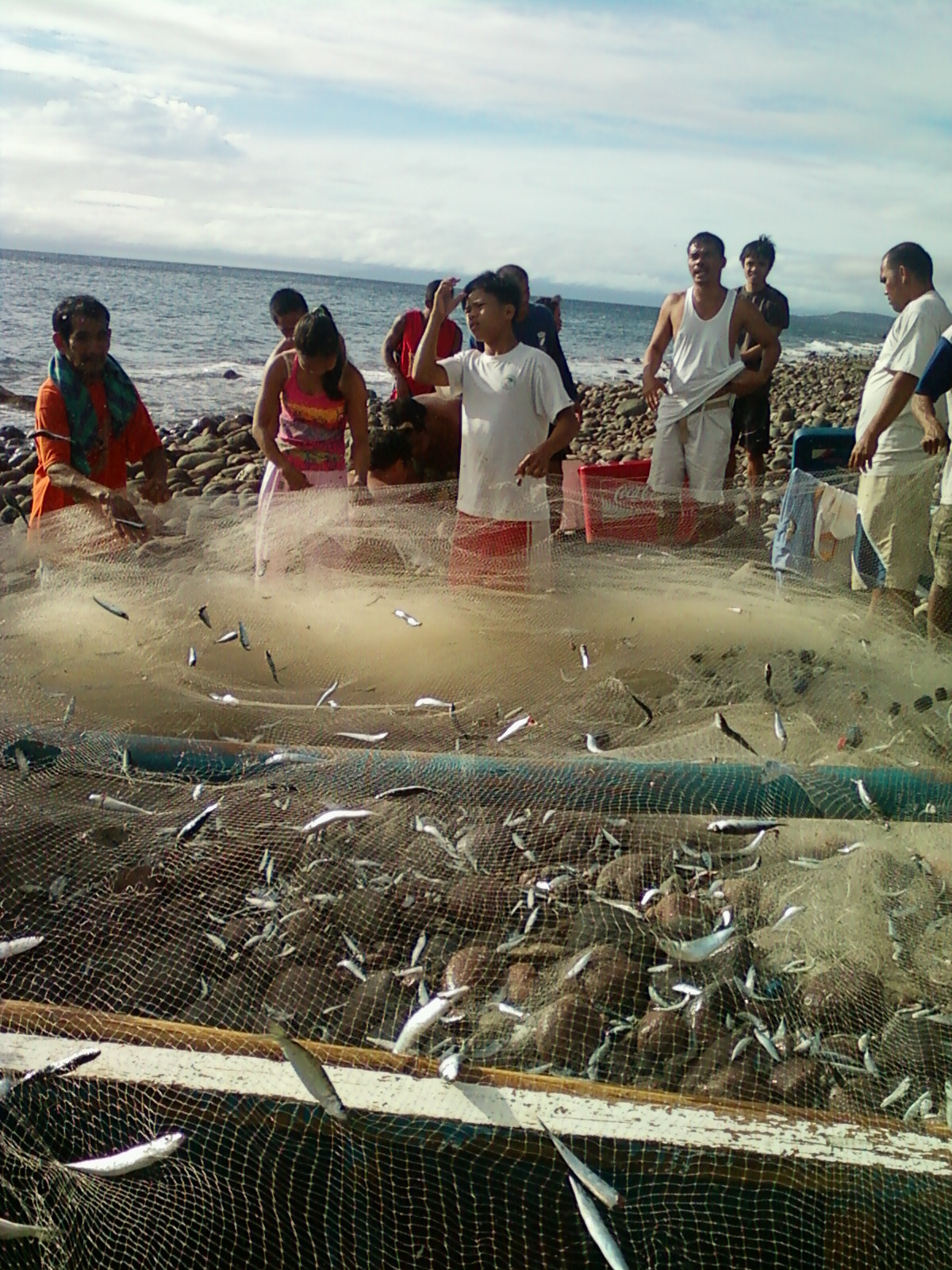 Fisherfolk in Banton, Romblon separate the day's catch from their nets as townsfolk wait to buy fresh fish.